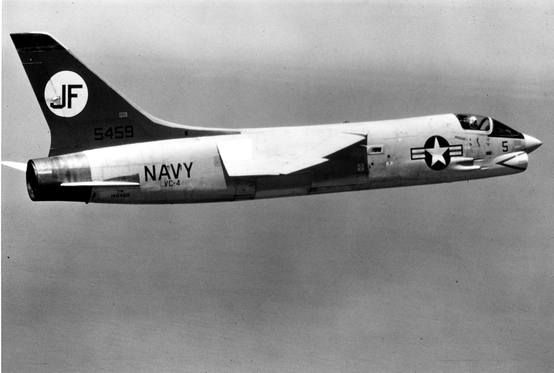 A U.S. Navy Vought F-8L Crusader (BuNo 145489) of Fleet Composite Squadron VC-4 in flight near Naval Station Roosevelt Roads, Puerto Rico, in 1968.